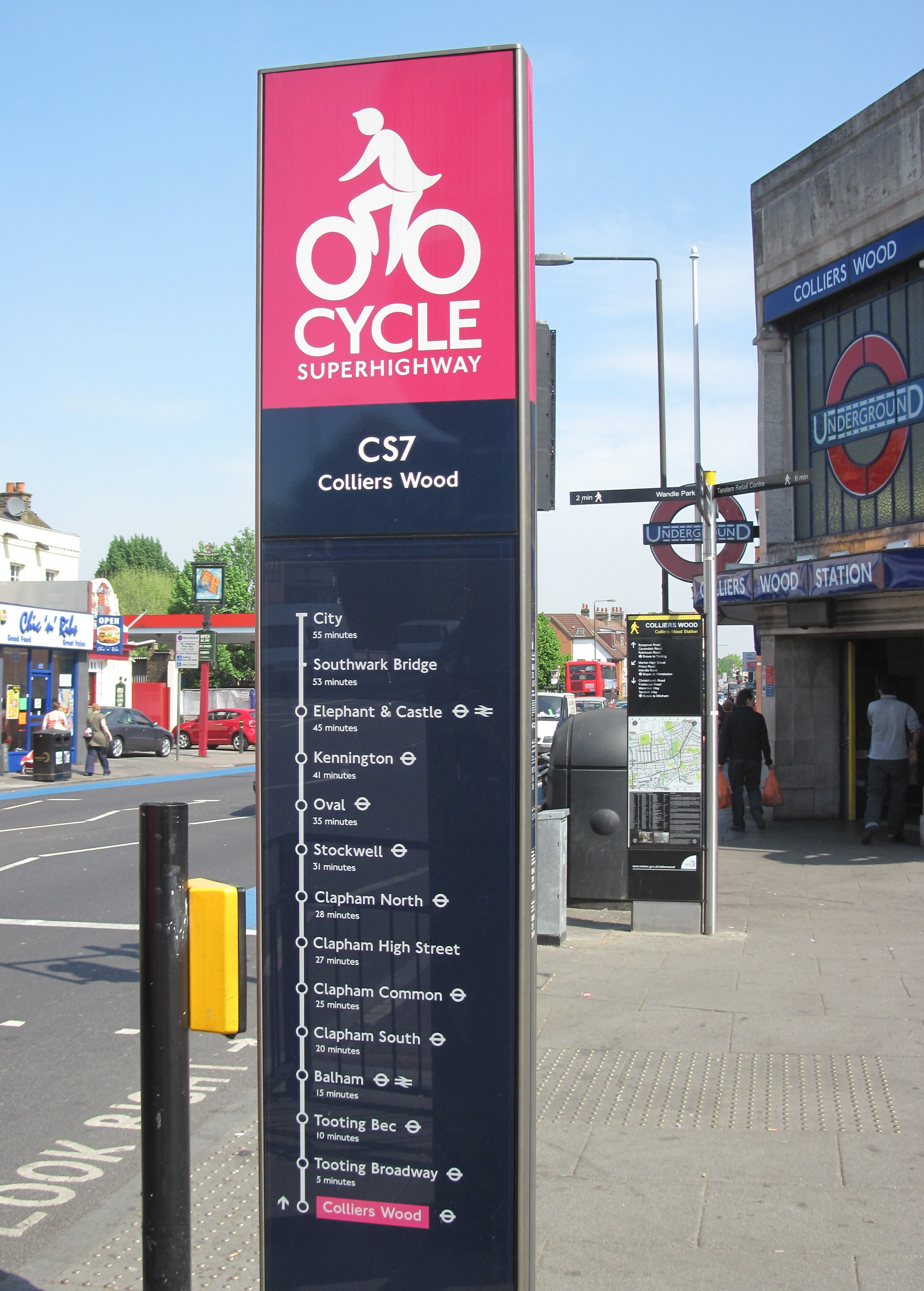 Sign at the beginning of 'Cycle Superhighway' CS7 (Bicycle Highway) in Colliers Wood, London.